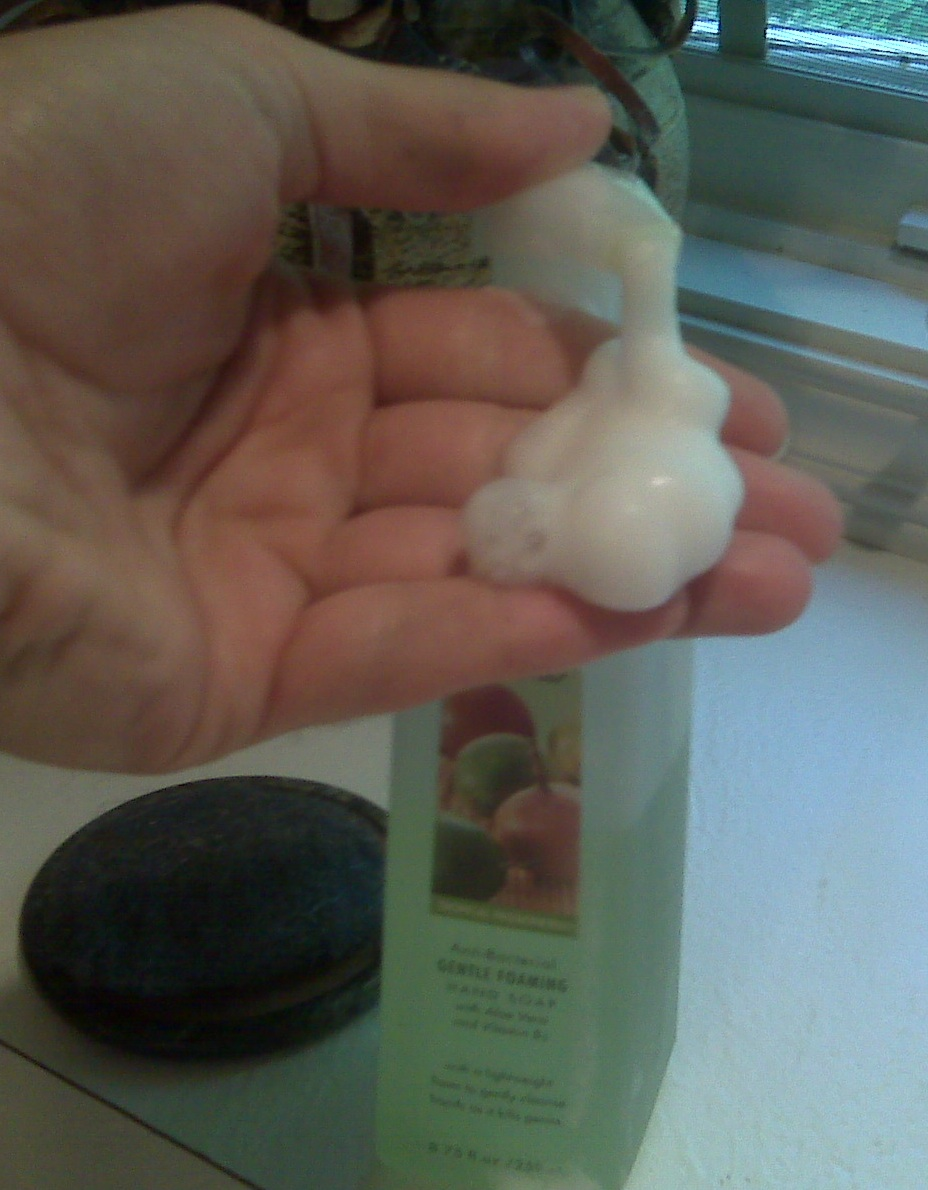 Photograph of a foam soap dispenser taken by DGreuel.